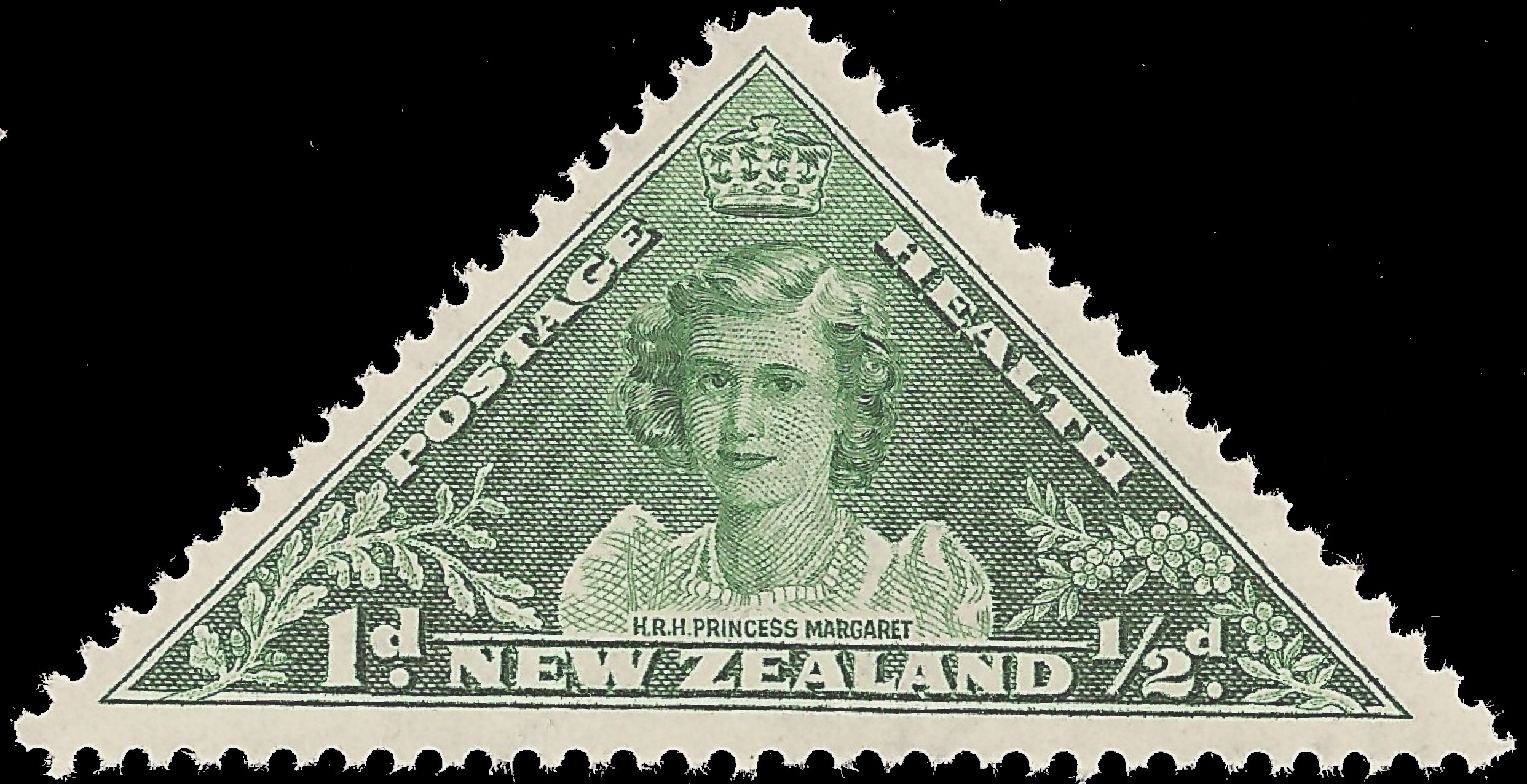 Semi-postal stamp of New Zealand, 1943, 1 penny + one half-pence green figuring Princess Margaret.